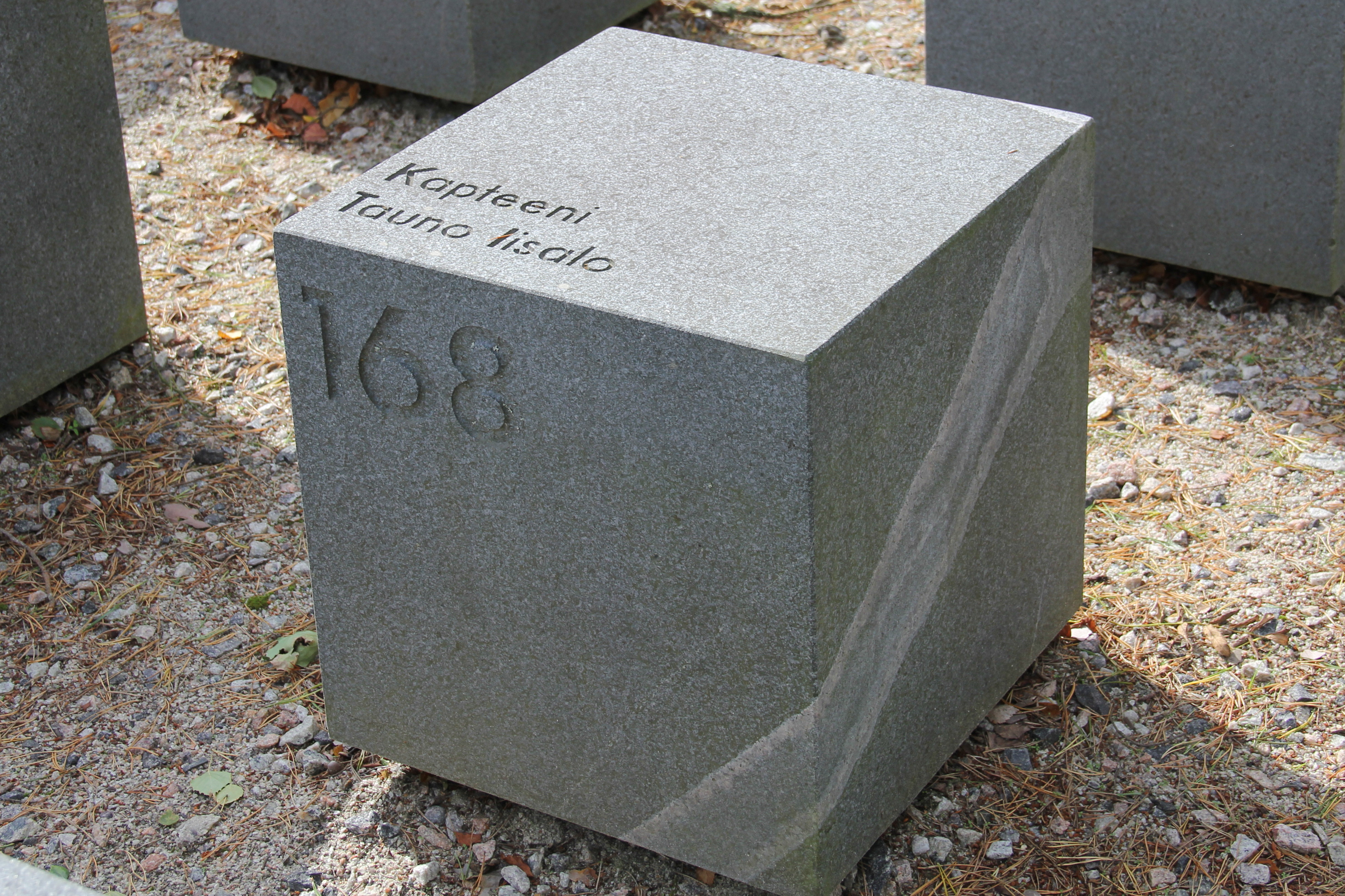 Askainen Knights park, Askainen, Masku, Finland. - A park established for honoring of Knights of the Mannerheim Cross. - Memorial stone for Knight nr 168, Pentti Iisalo.